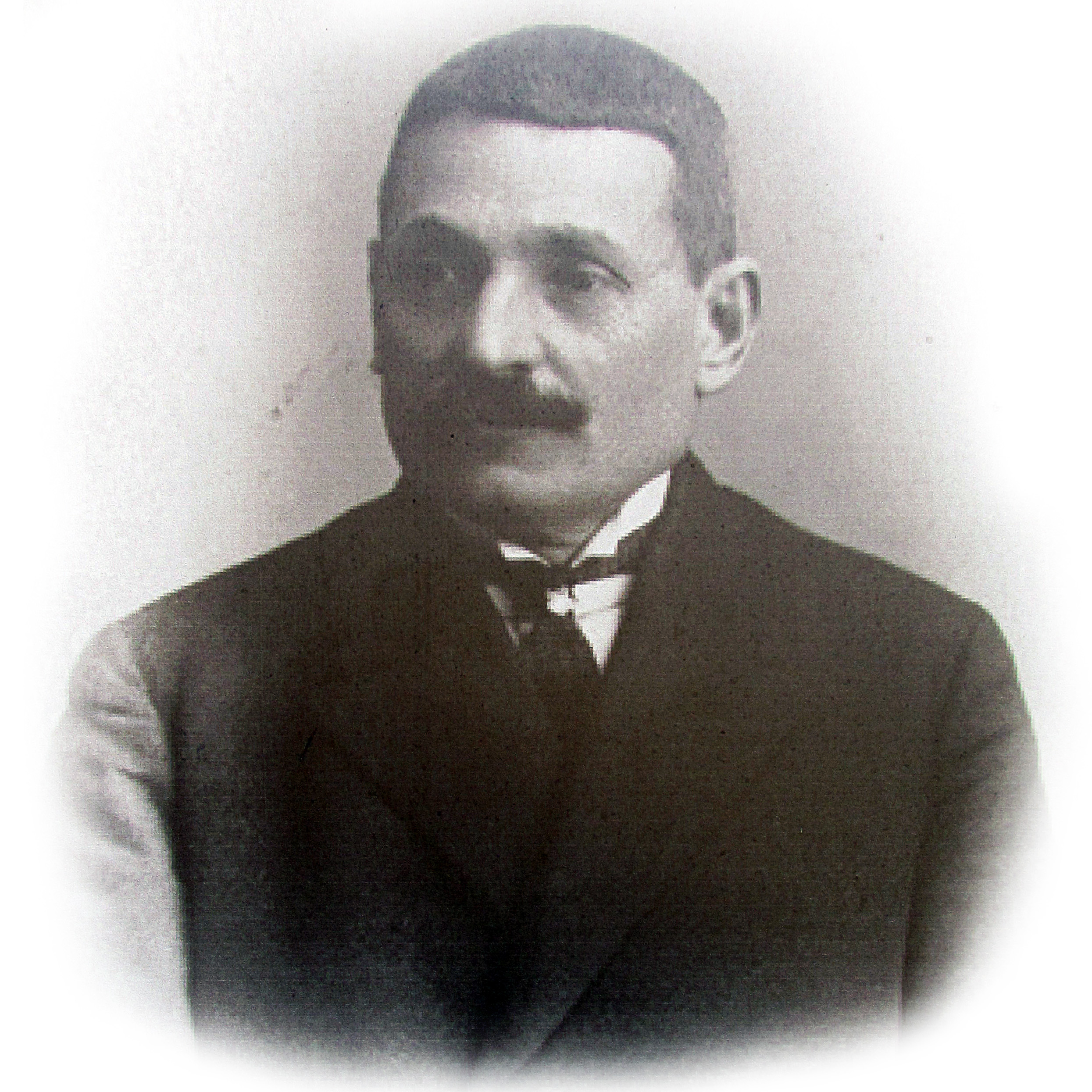 Zivojin Peric Serbian historian